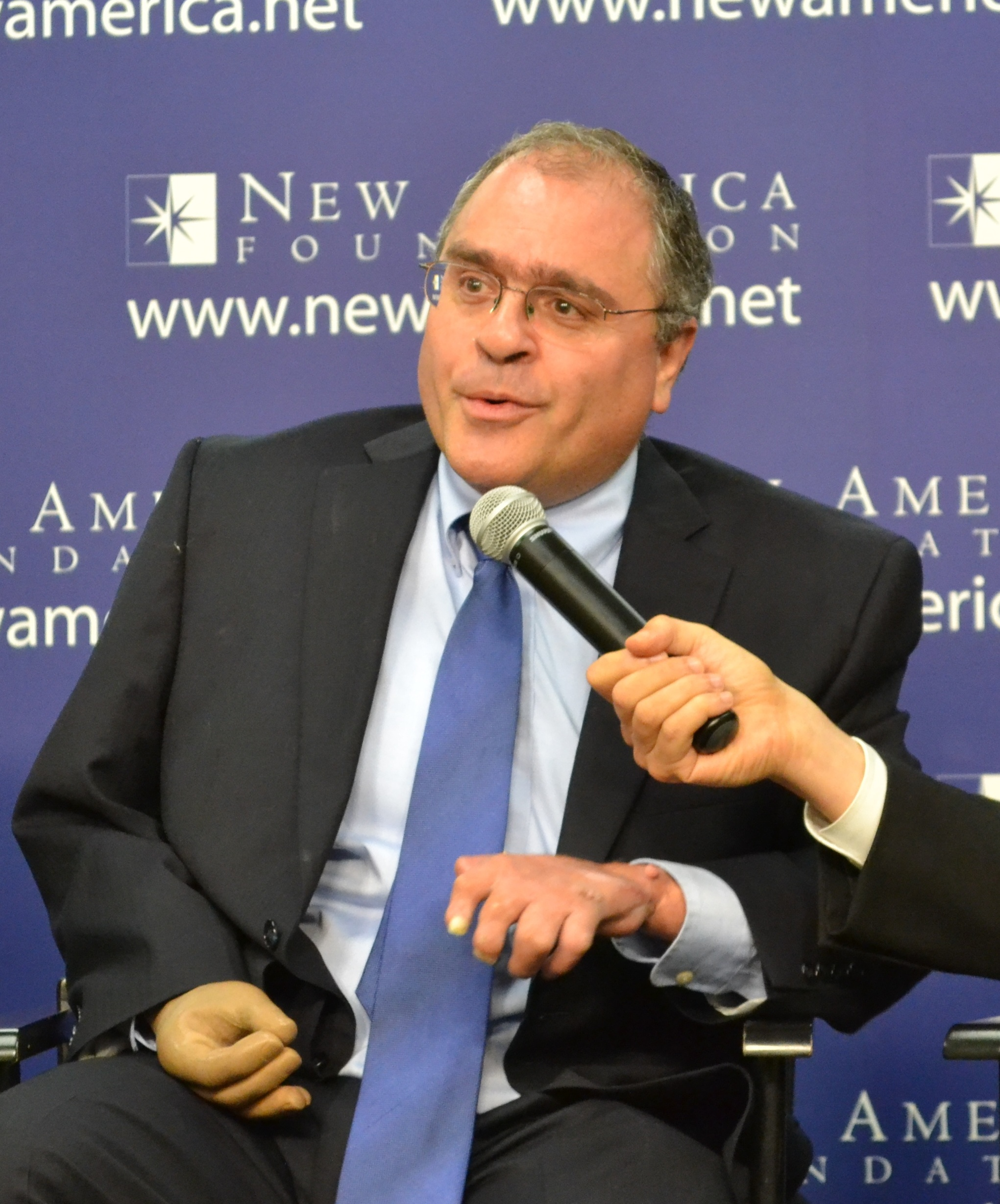 Paul Glastris (Washington Monthly), Steven Waldman (BeliefNet)